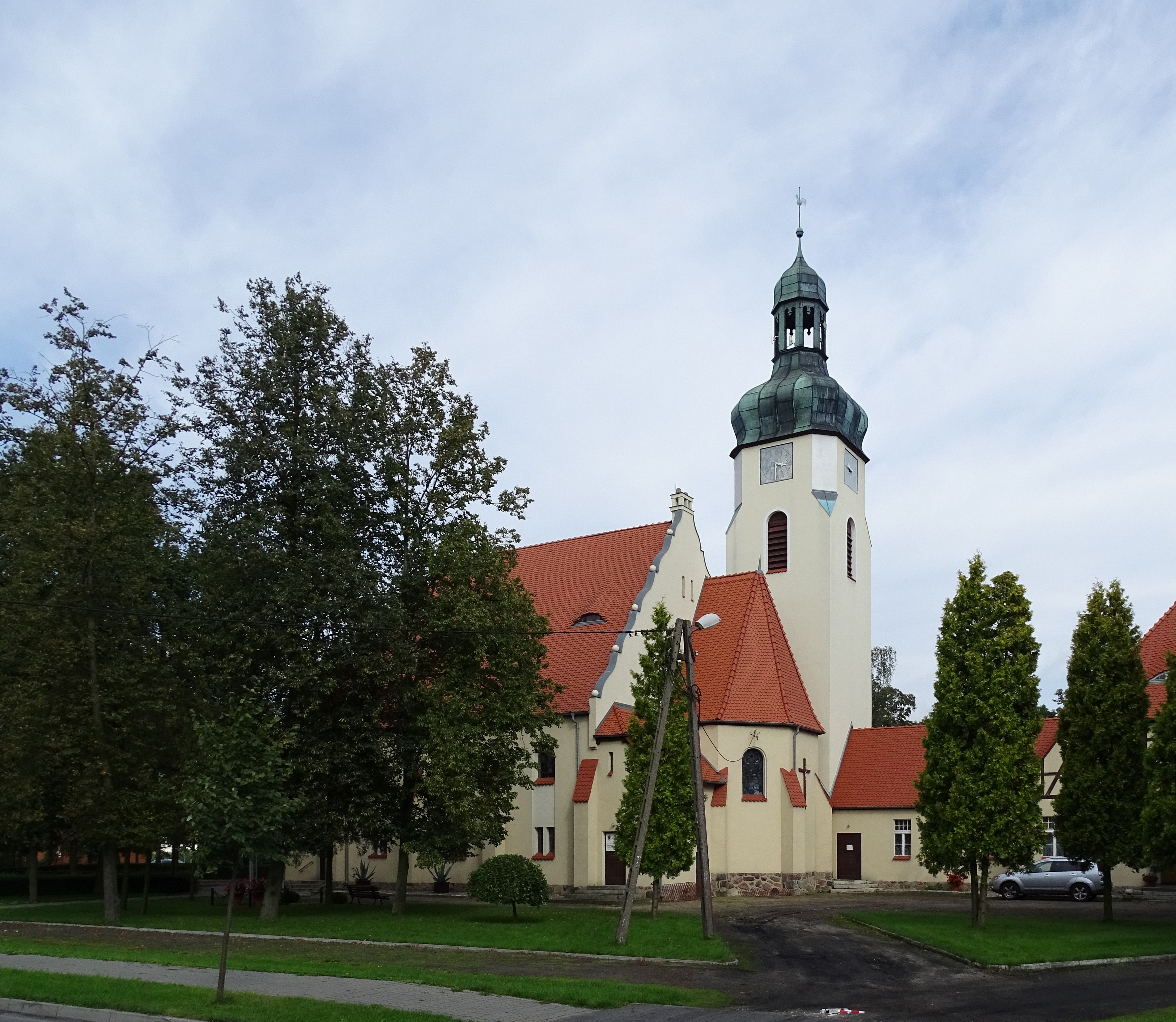 Rojewo, Kuyavia, Poland. Virgin Mary church. Built in the years 1908-10.